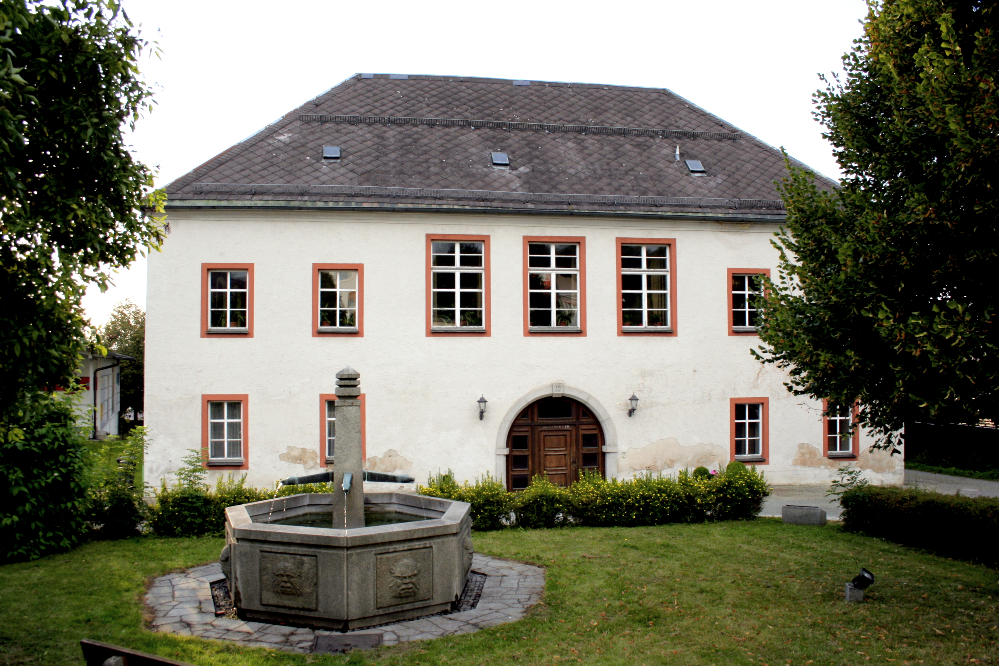 Heritage Building; Germany; Bavaria; Upper Palatinate; administrative district Neustadt. a.d.Waldnaab, Waldthurn New Castle Front with fountain (D-3-74-165-10)